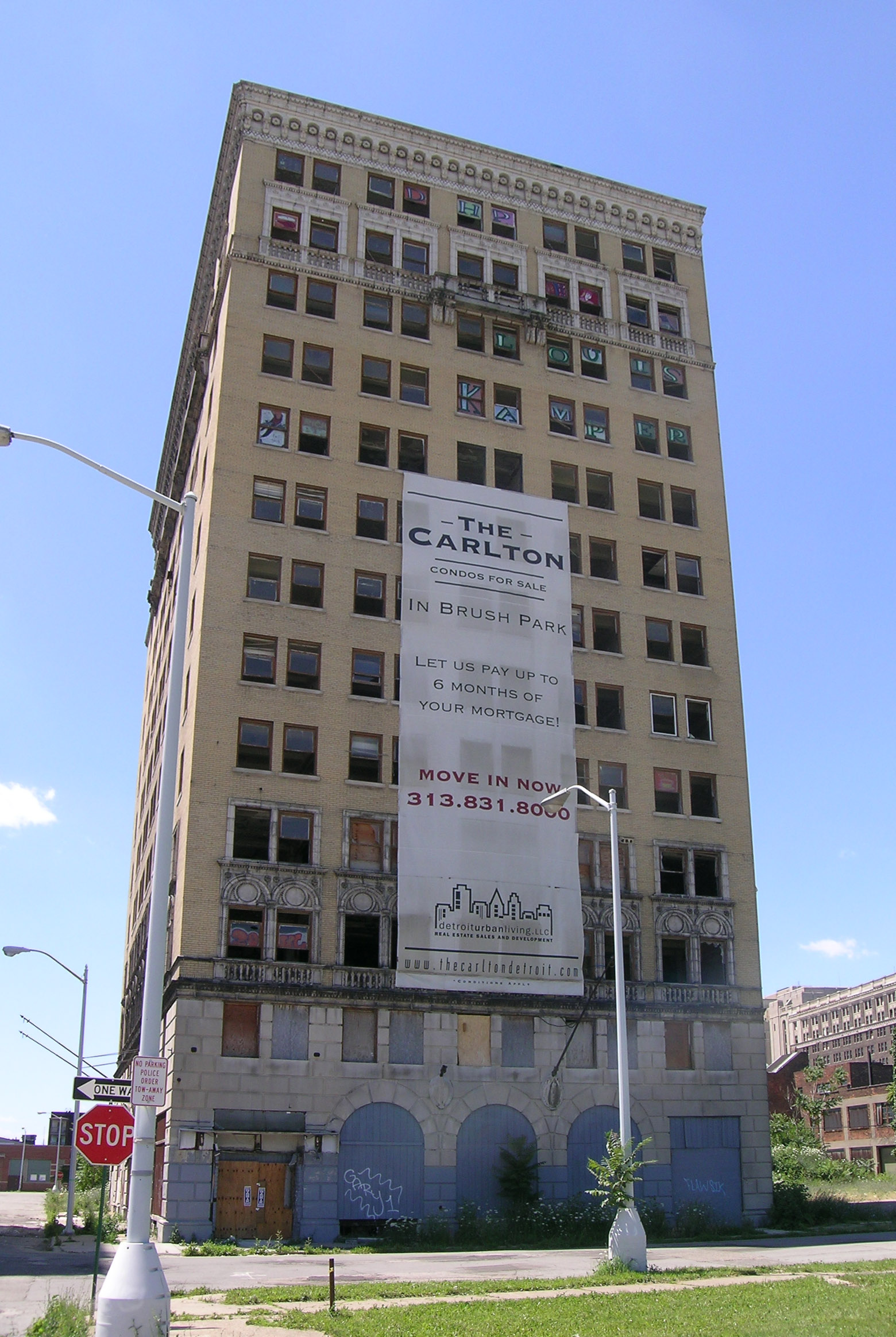 Eddystone Hotel — Detroit, Michigan. A Beaux-Arts style building in Midtown Detroit, listed on the National Register of Historic Places.